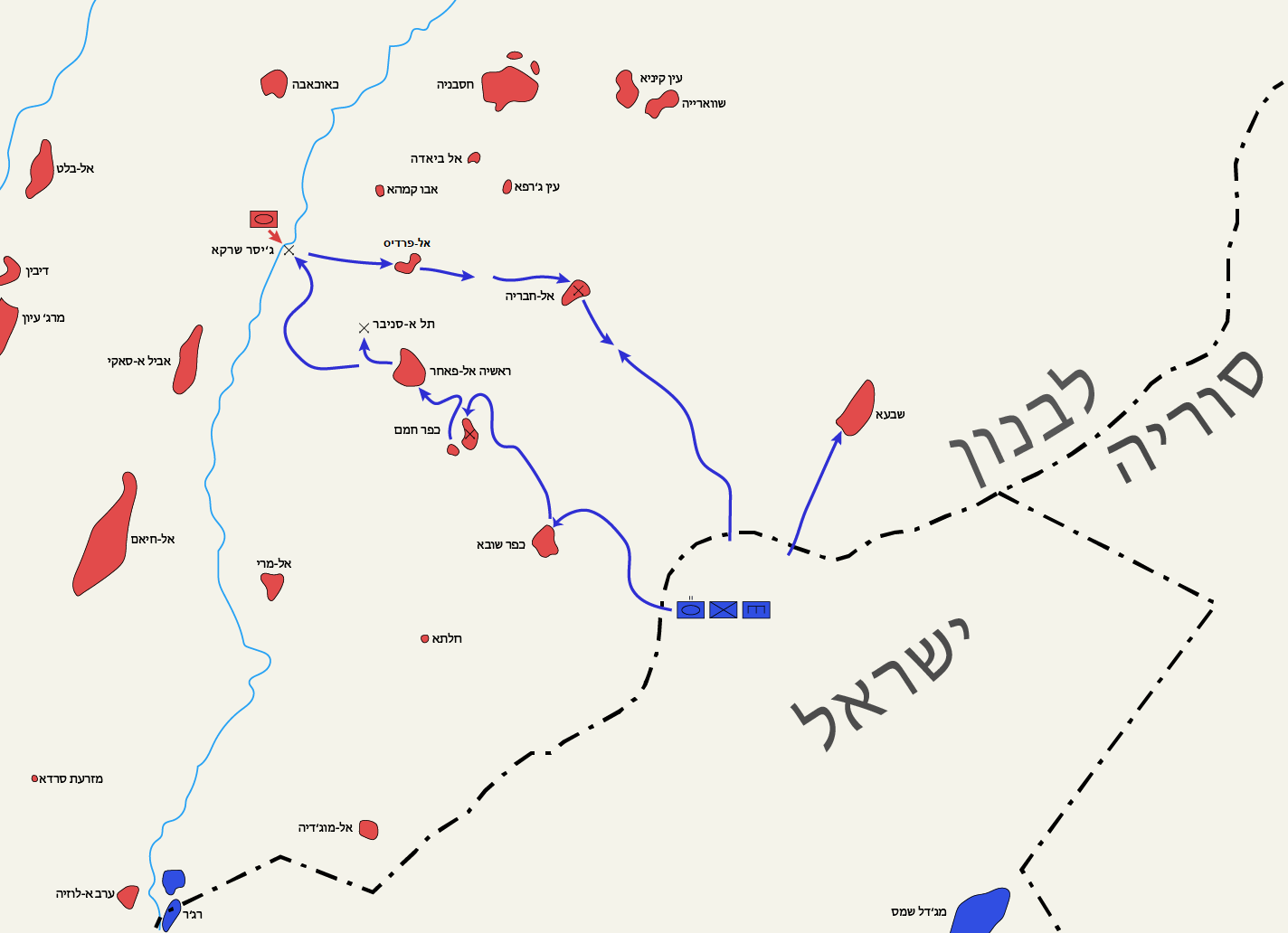 Map of Operation Gibor Hayil (1972) in Hebrew.